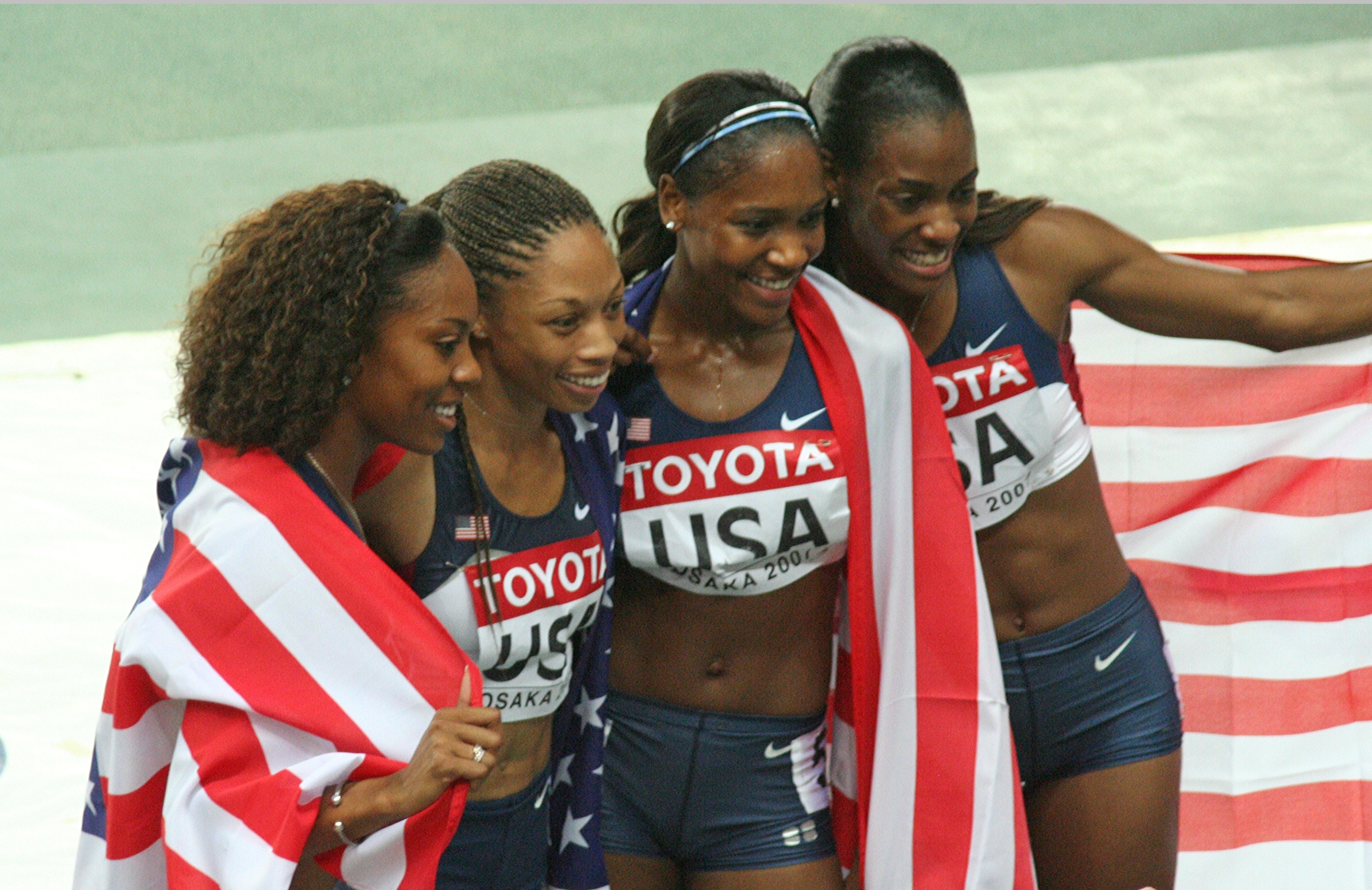 World Athletics Championships 2007 in Osaka - The US team celebrating their victory in the women's 4*400 metres relay competition